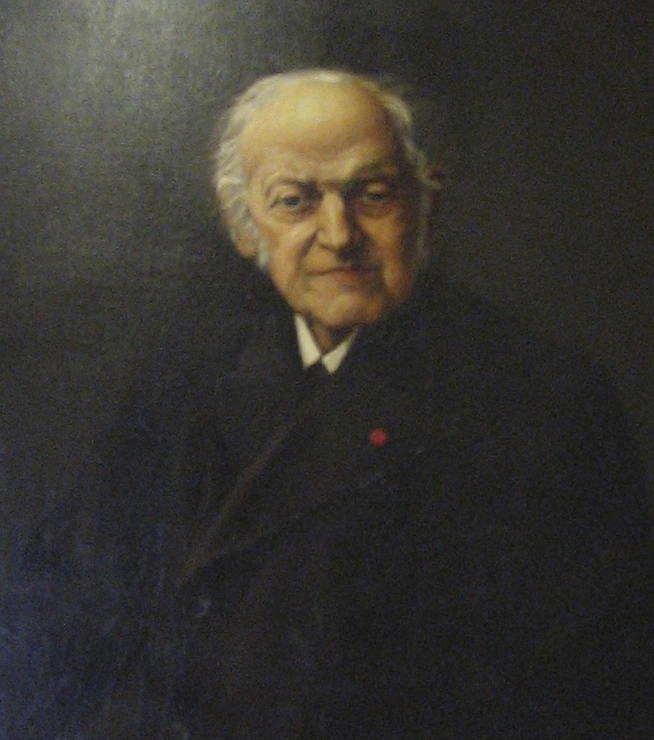 Painted portrait of Charles Lyon-Caen (1843-1935), French jurist. Gift by the Frecnh group of the Association of Attendees and Alumni of The Hague Academy of International Law (AAA).